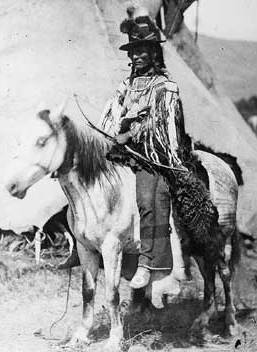 Chief Looking Glass of the Nez Perce-1871